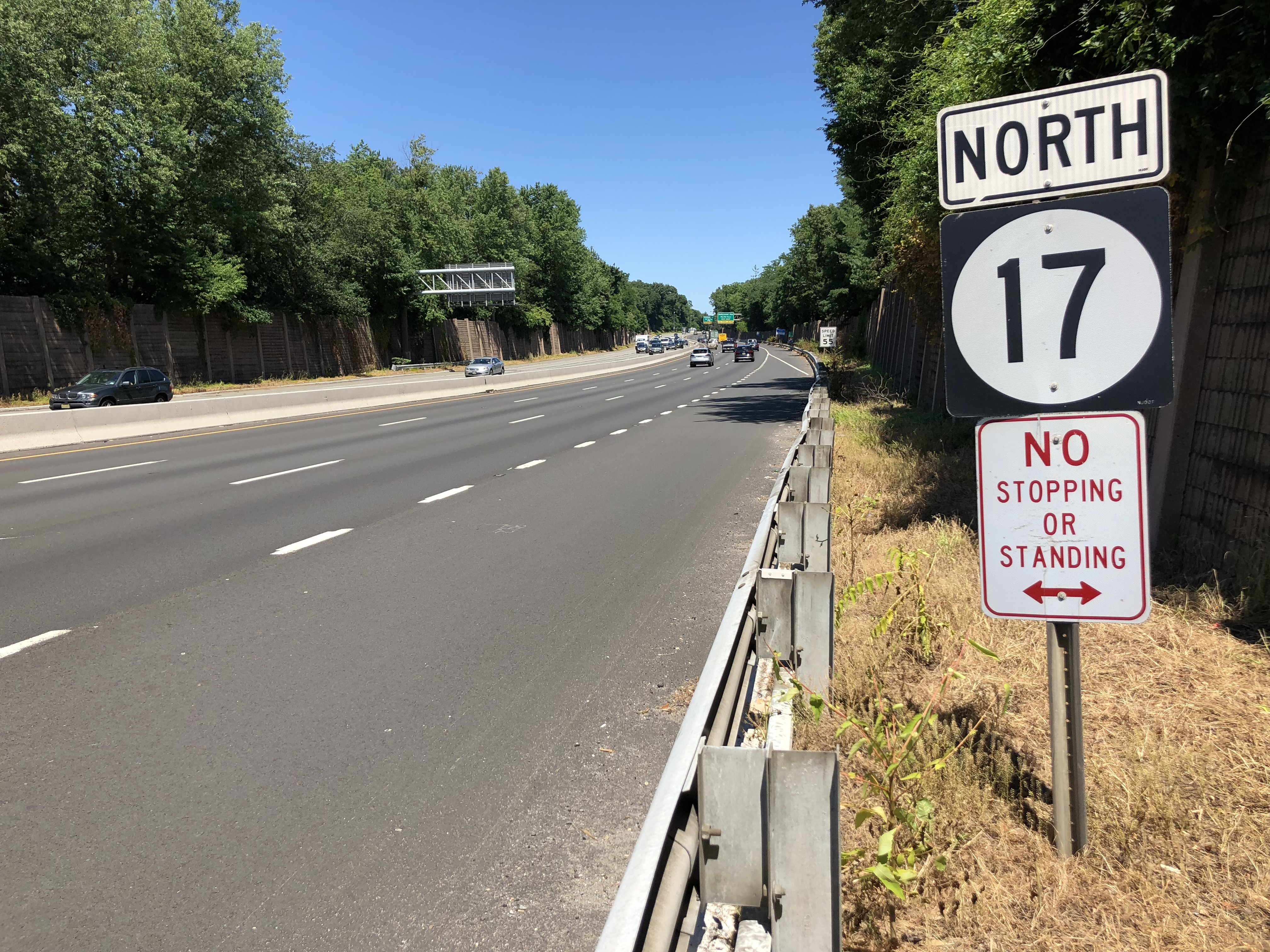 View north along New Jersey State Route 17 just north of the exit for Bergen County Route 112 (Racetrack Road) in Ho-Ho-Kus, Bergen County, New Jersey